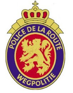 Highway Patrol Belgium